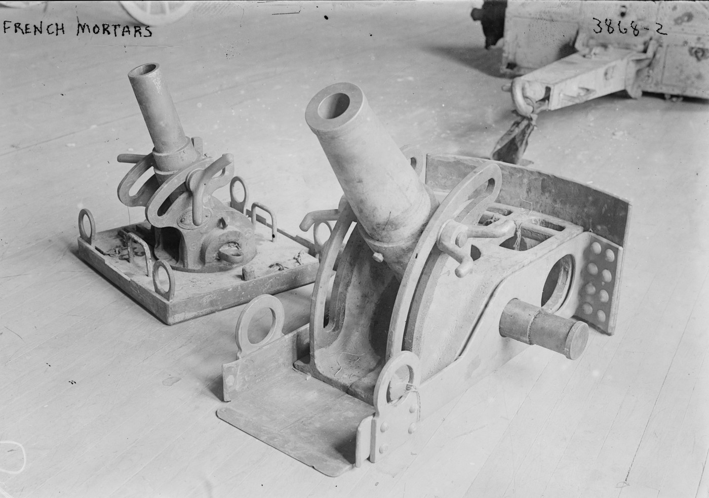 Photograph showing French 58 mm trench mortars of World War I vintage. Left is the early Mortier de 58 T n°1 bis Right is the later Mortier de 58 mm type 2